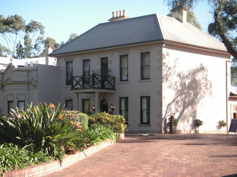 Eschol Park House in Eschol Park, NSW. It is now used as a function centre.